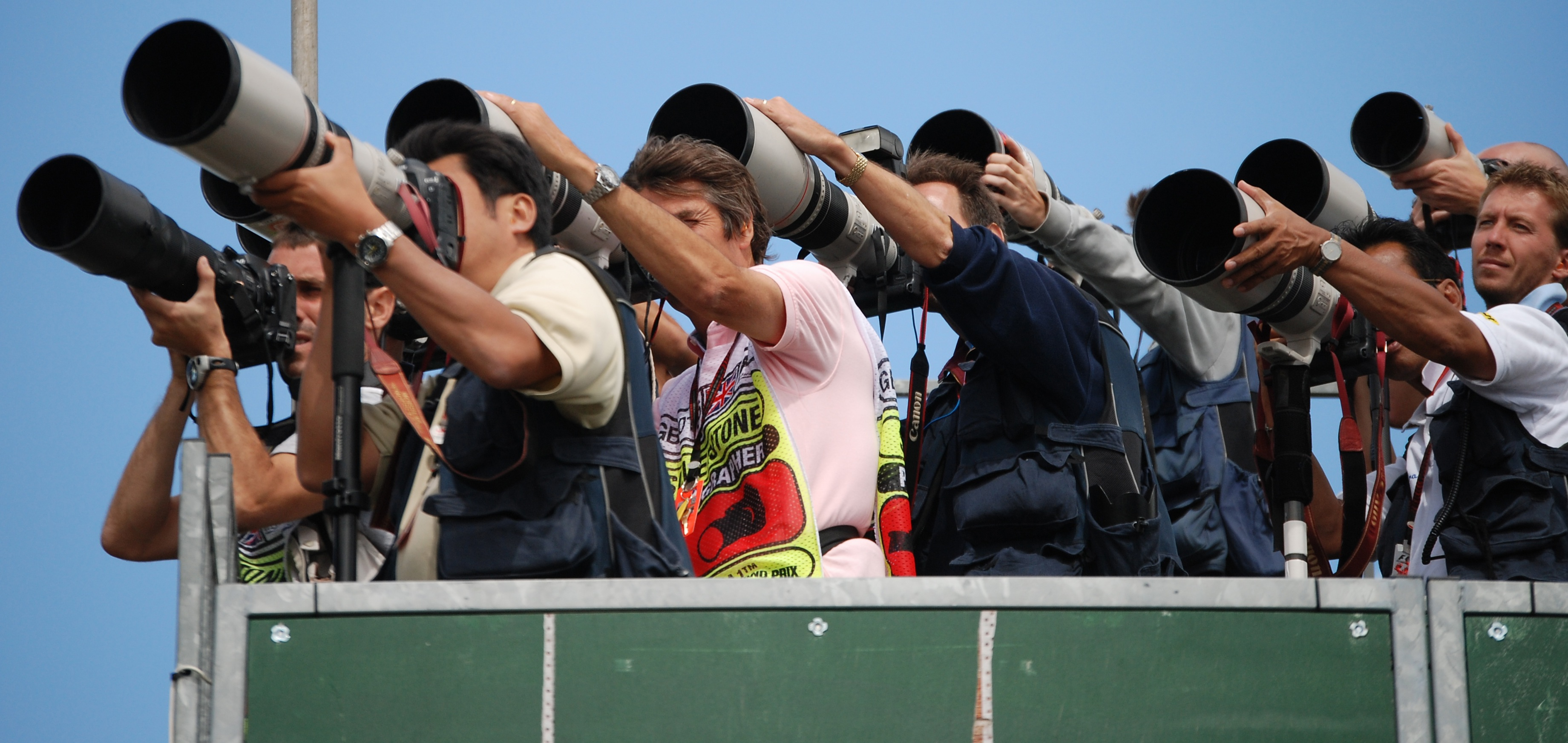 Formula One track photographers, doing what they do best, capturing all the action.